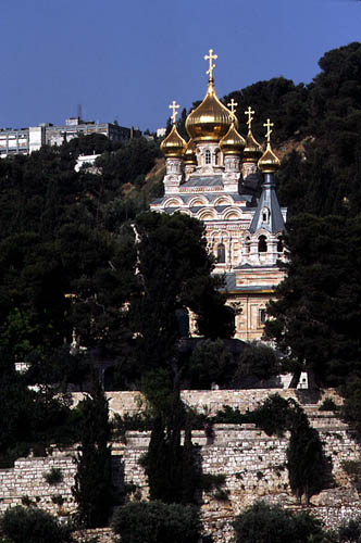 St Mary Magdalene Church